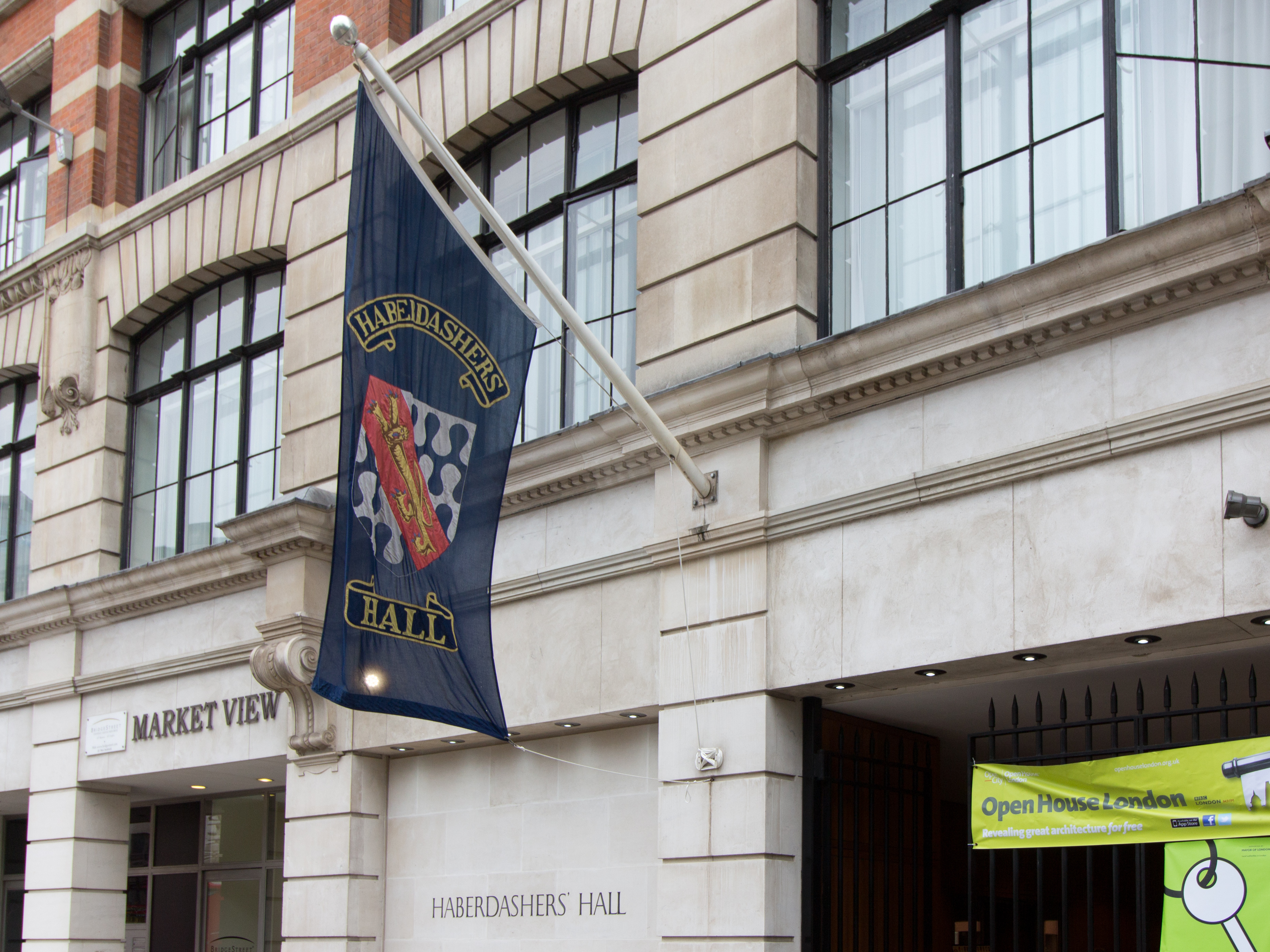 Haberdashers' Hall, London. Home of the Worshipful Company of Haberdashers